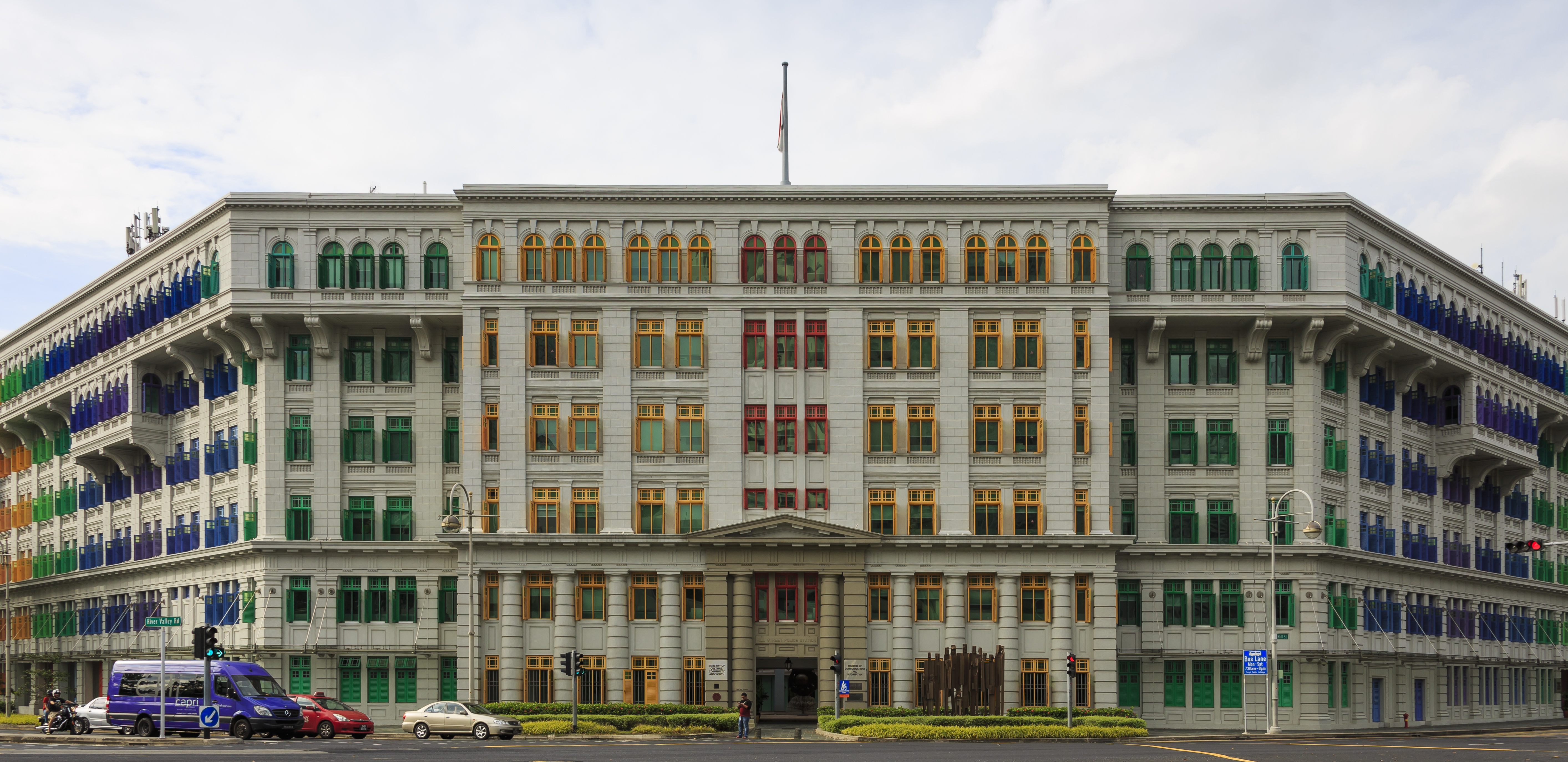 Singapore: Former Hill Street Police Station. It is presently occupied by the Ministry of Communications and Information and the Ministry of Culture, Community and Youth